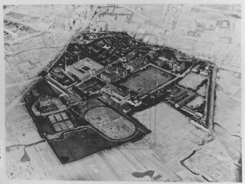 Aerial view of Shanghai Jiao Tong University Xuhui Campus in 1940s.